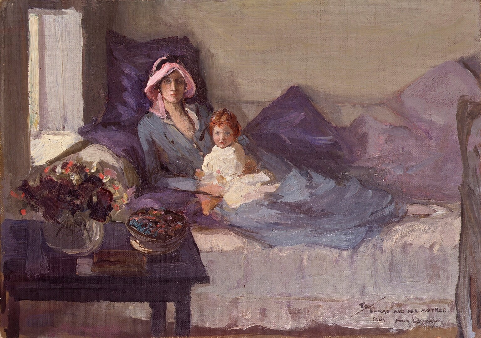 Clementine Ogilvy Spencer-Churchill. Oil on canvas, circa, 1915